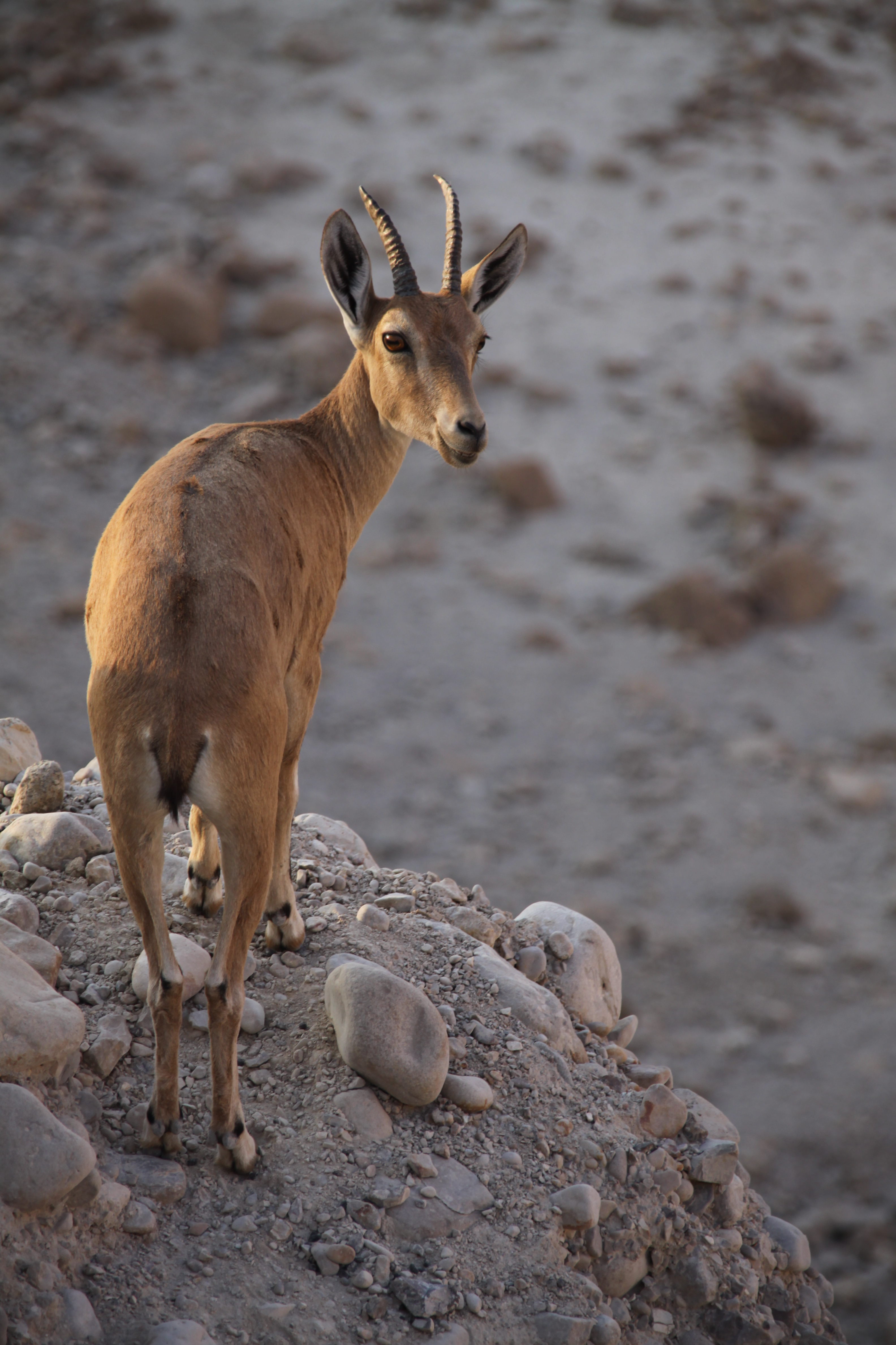 Nubian Ibex (Capra nubiana) seen at Ein Gedi nature reserve, The Judean desert, Israel